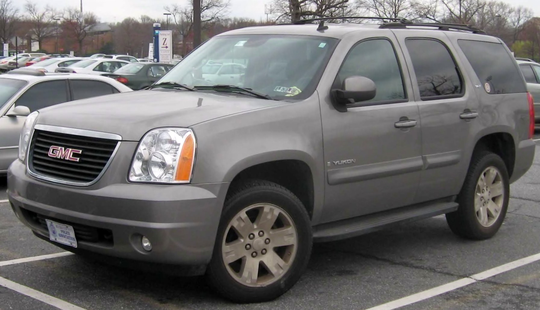 2007-2008 GMC Yukon photographed in College Park, Maryland, USA.